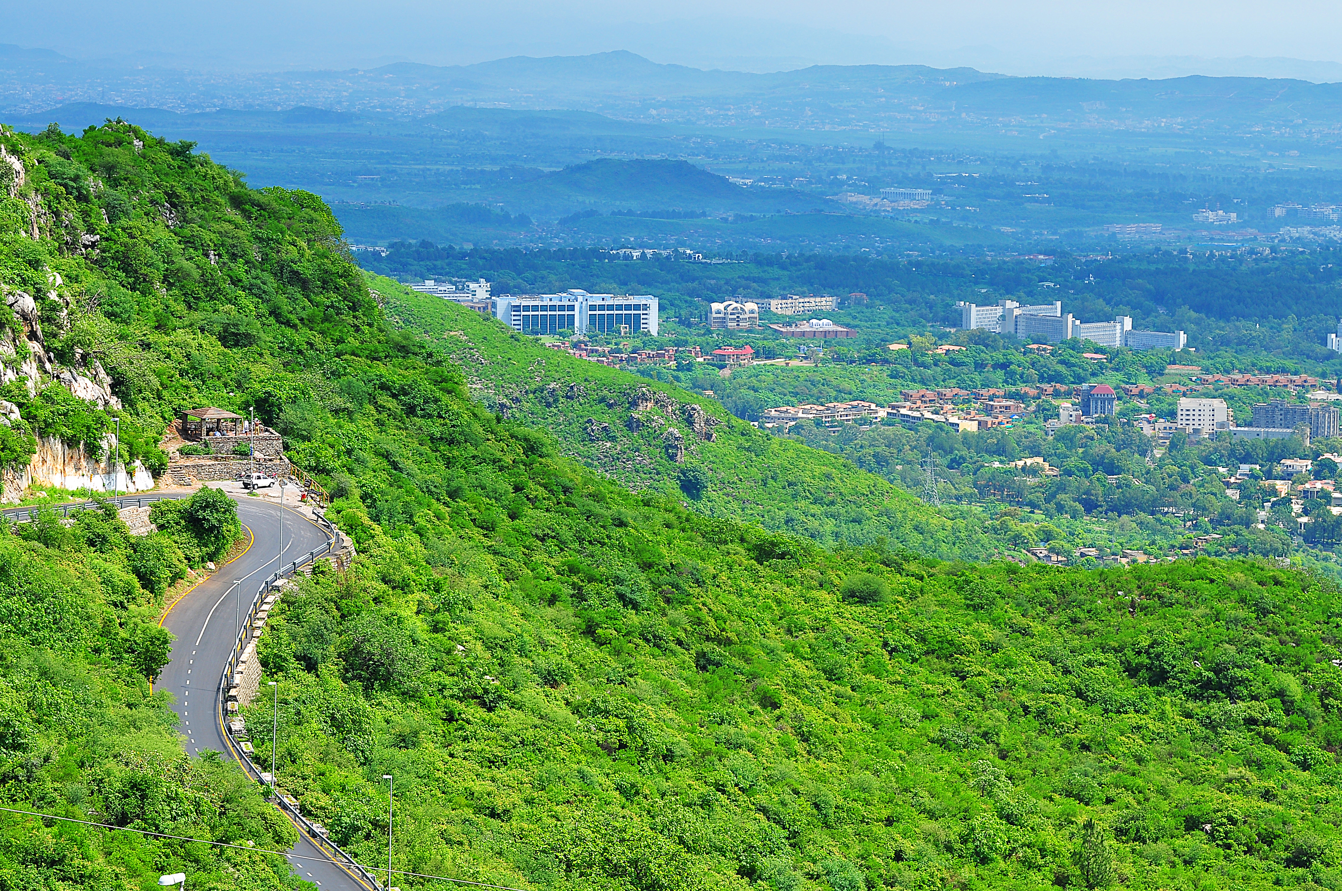 Road winding up Margalla Hills in Islamabad